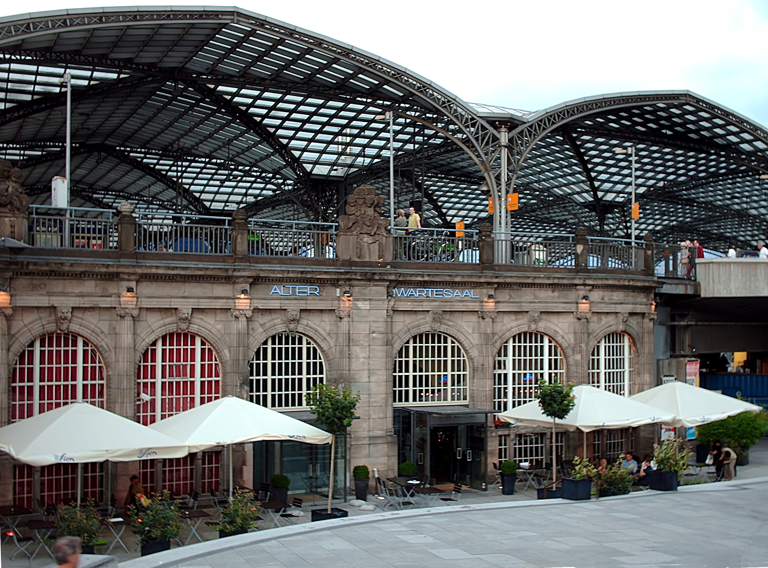 Alter Wartesaal, Cologne, Germany check usage